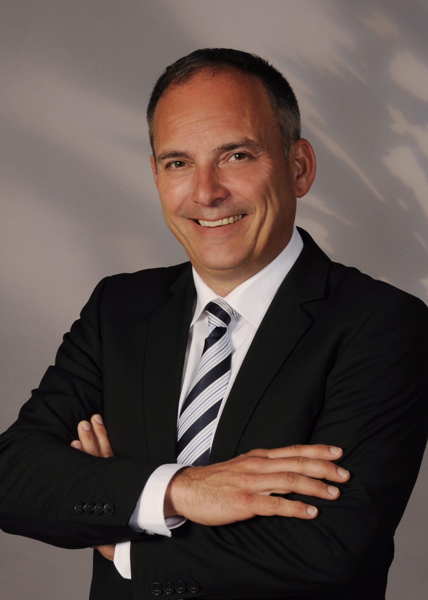 Portrait of trainer Matthias Grossmann